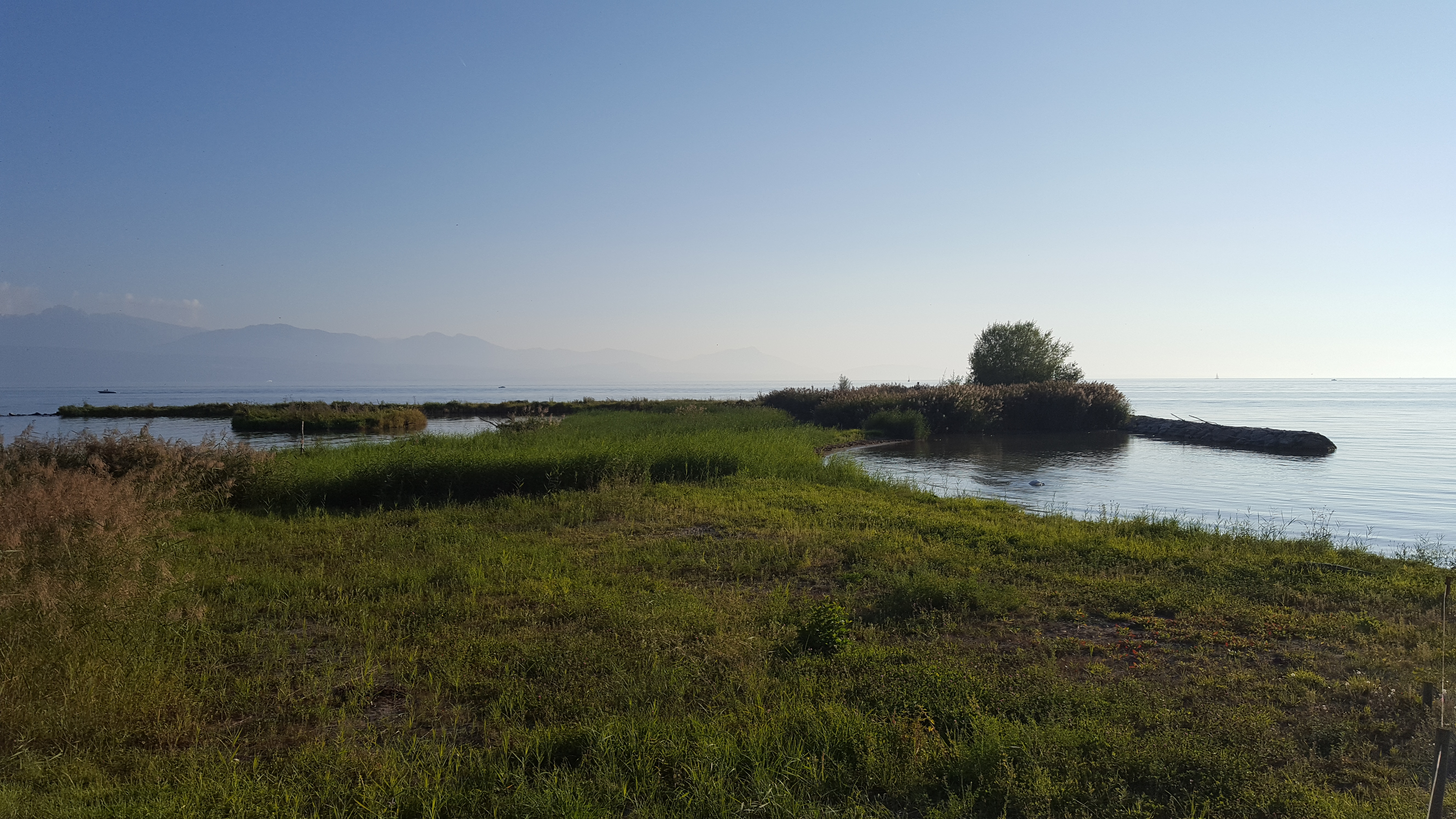 Ile aux oiseaux (Préverenges, VD, Suisse), seen from the coast.